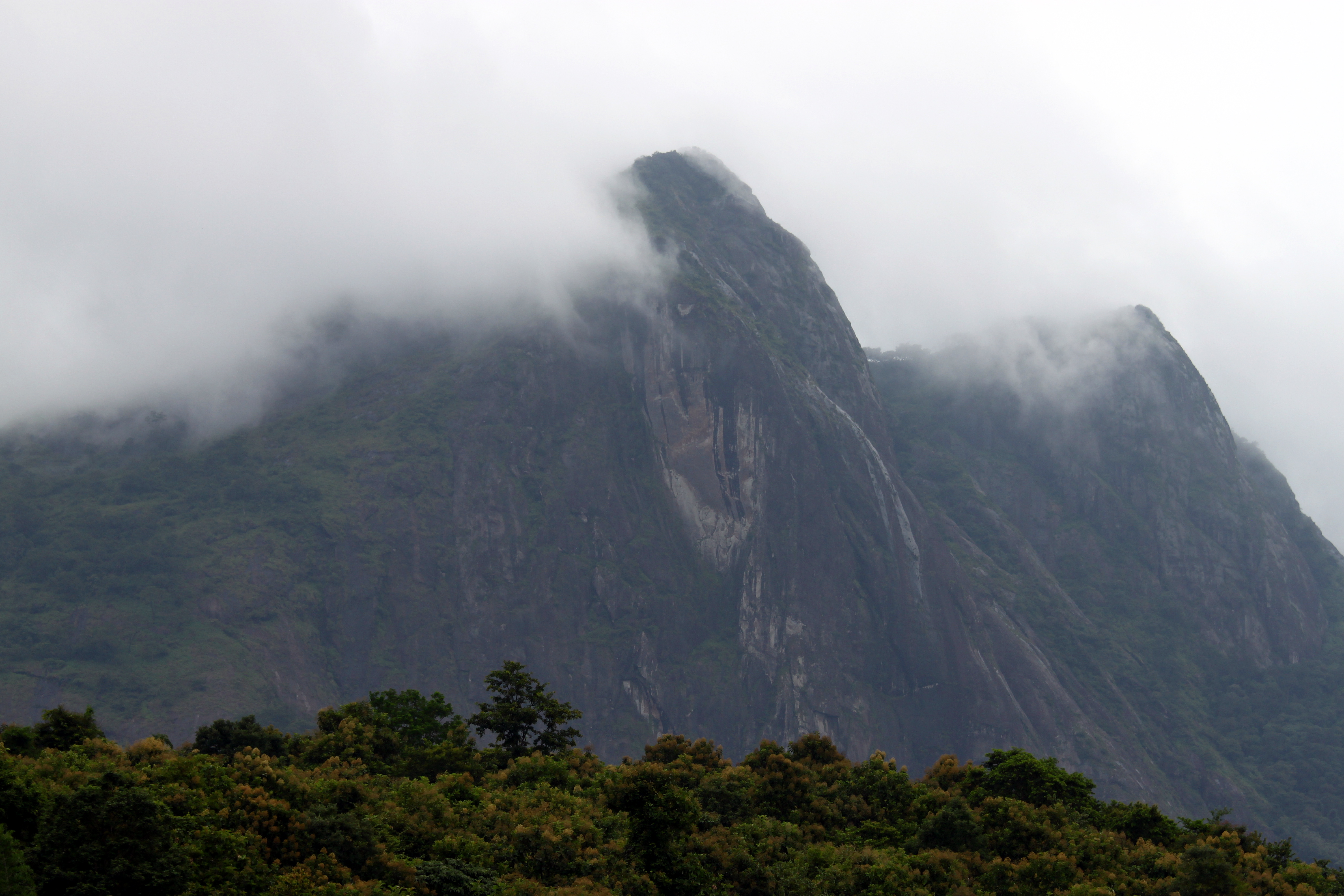 One of the toughest trekking trail in Parambikulam Wildlife Sanctuary